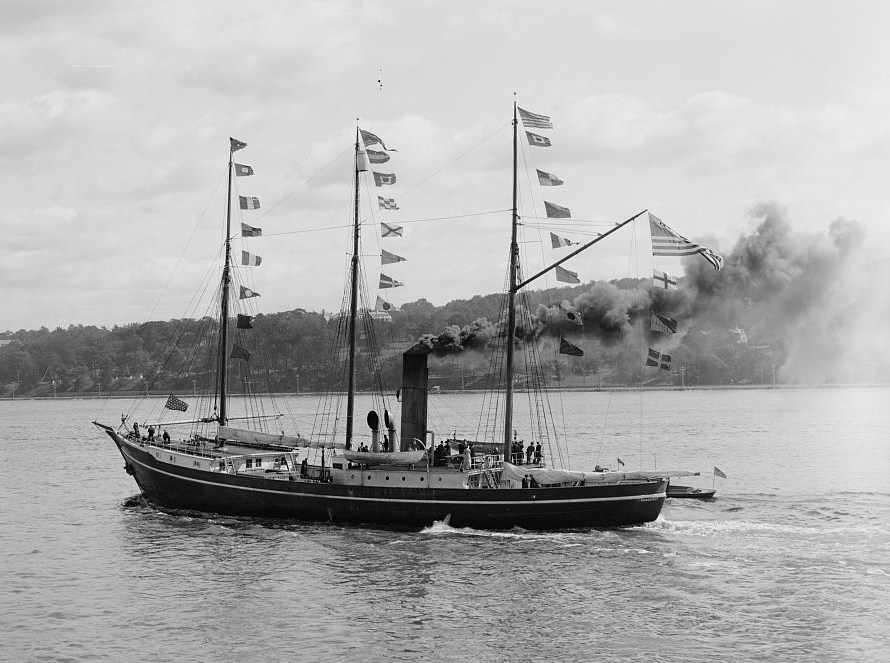 Peary's steamer Roosevelt, Hudson-Fulton Parade, cropped This work is from the Detroit Publishing Co. collection at the Library of Congress. According to the library, there are no known copyright restrictions on the use of this work. Most of the images in this collection were published before 1923 and are therefore in the public domain in the United States. A few images were published after this date and may be restricted by copyright.